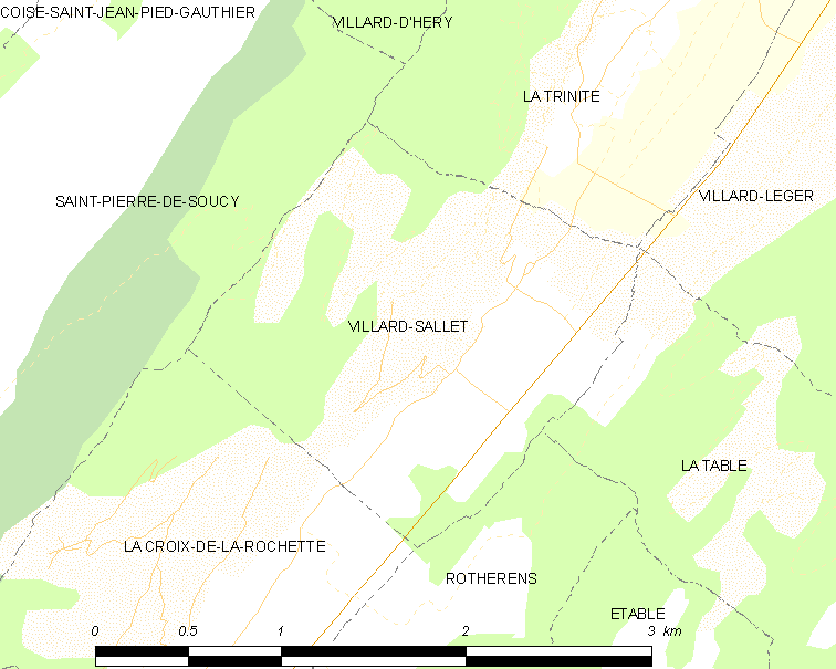 Map of French municipality Villard-Sallet